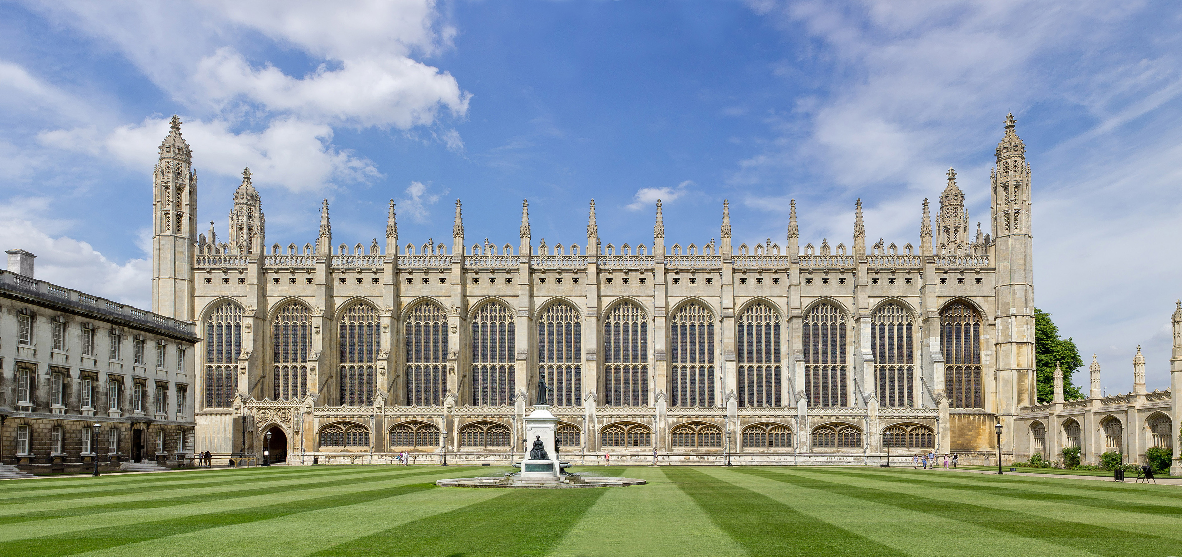 King's College Chapel, Cambridge. View from front court.